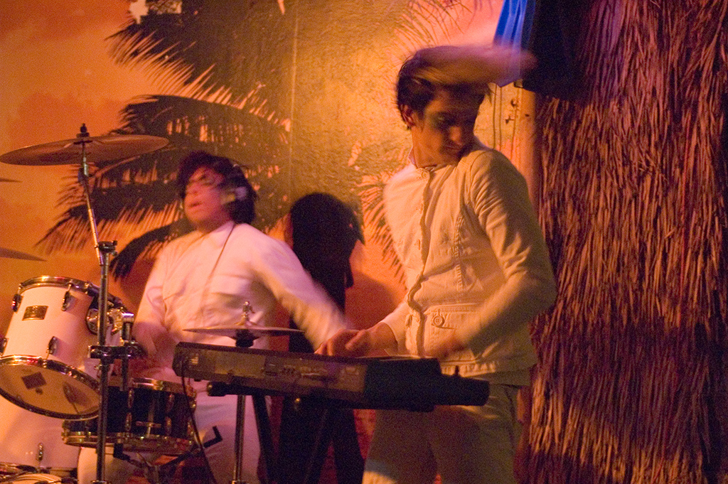 Shiny Toy Guns concert, 2005, the Burts Tiki Lounge, Utah, USA